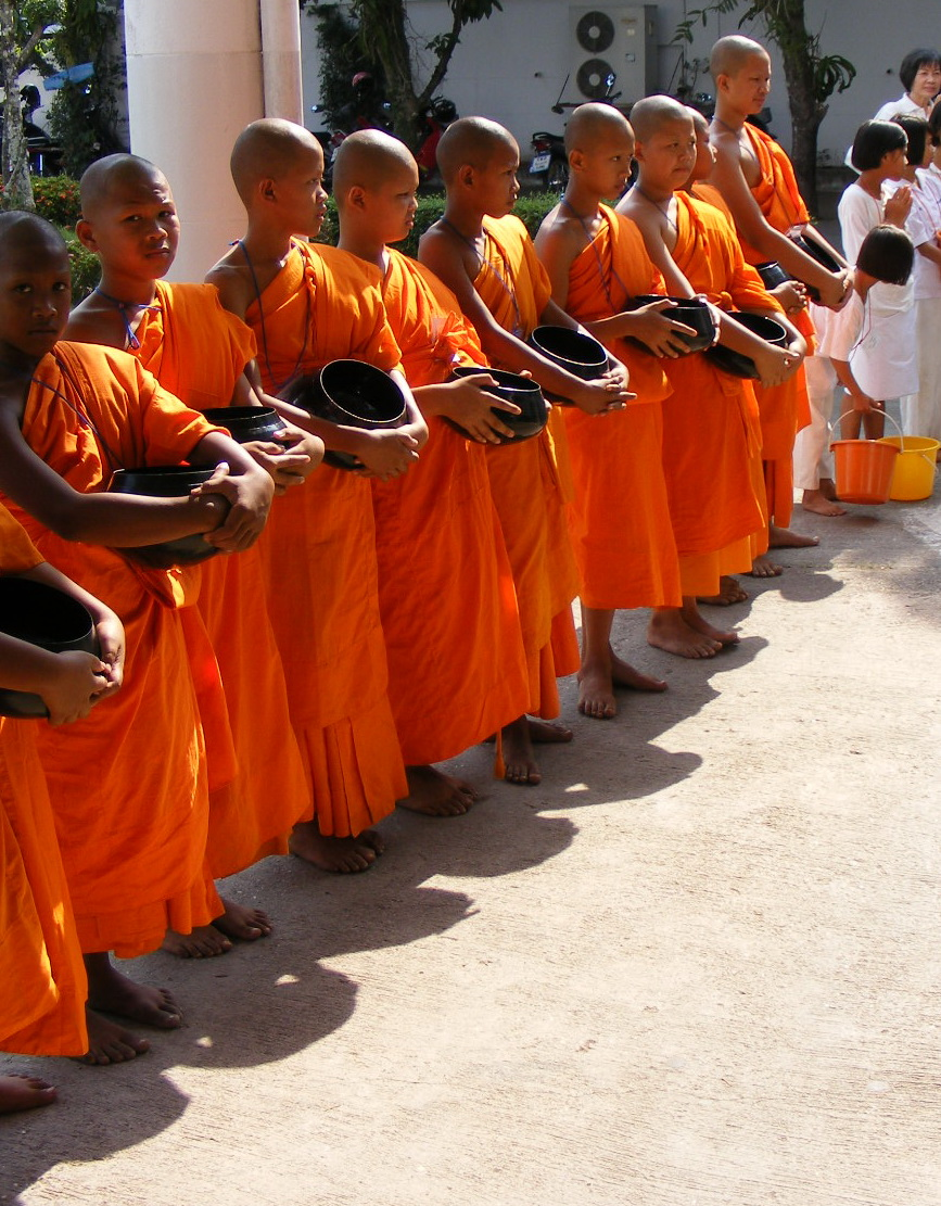 Thai Buddhist Monk in Ban Pha Cuk, Pha Chuk subdistrict, Mueang Uttaradit, Uttaradit Province, Thailand.